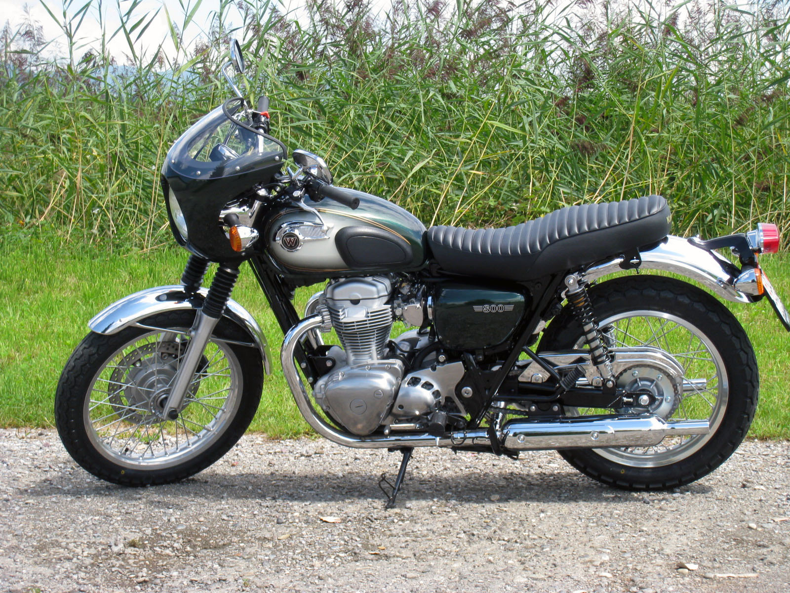 Kawasaki W800, Central Plateau, Switzerland